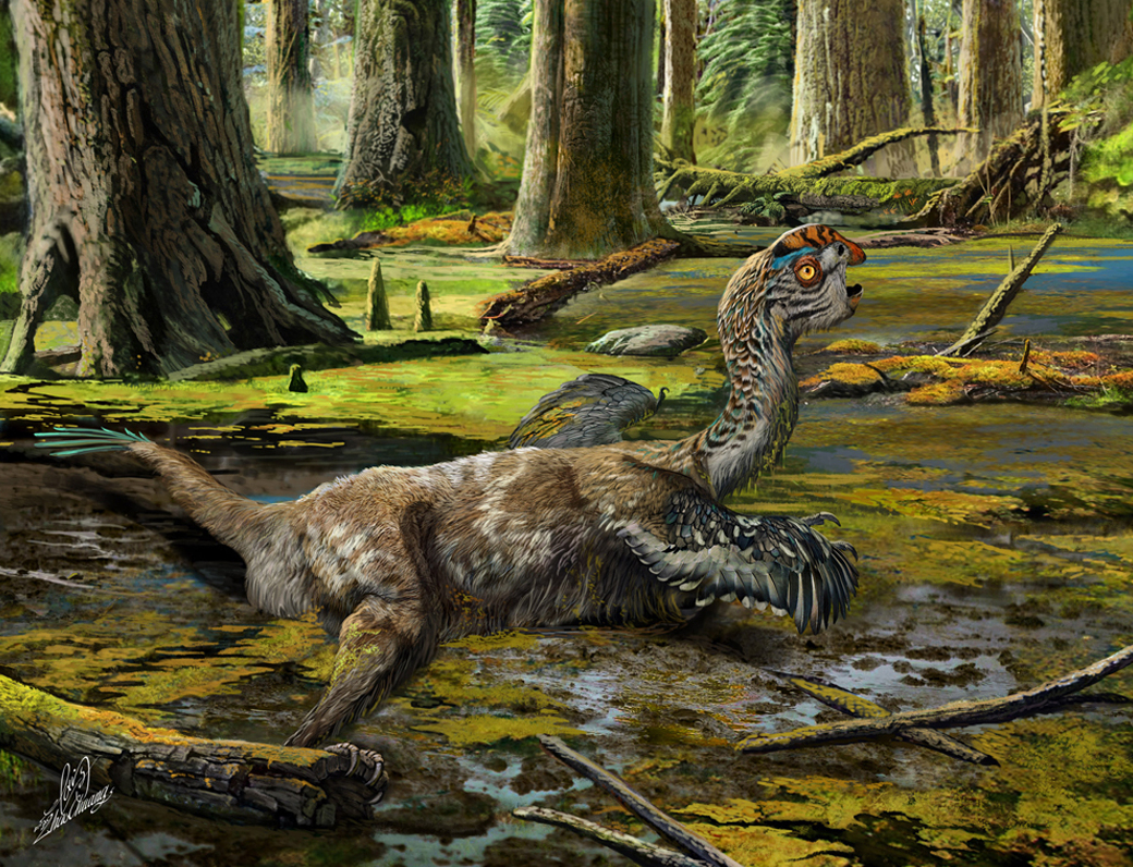 An artistic reconstruction, showing the last-ditch struggle of Tongtianlong limosus as it was mired in mud, one possible, but highly speculative, interpretation for how the specimen was killed and buried (Drawn by Zhao Chuang).